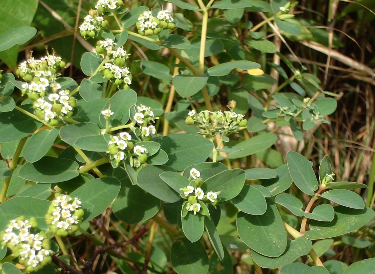 Euphorbia atoto; Chamaesyce chamissonis; Beach spurge, (kihikihitahi) at tidal flat in Tonga